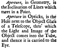 Scanned from public-domain book: BLOUNT, Thomas, Glossographia Anglicana Nova: Or, A Dictionary, Interpreting Such Hard Words of whatever Language, as are at present used in the English Tongue, with their Etymologies, Definitions, &c. Also, The Terms of Divinity, Law, Physick, Mathematics, History, Agriculture, Logick, Metaphysicks, Grammar, Poetry, Musick, Heraldry, Architecture, Painting, War, and all other Arts and Sciences are herein explain'd, from the best Modern Authors, as, Sir Isaac Newton, Dr. Harris, Dr. Gregory, Mr. Lock, Mr. Evelyn, Mr. Dryden, Mr. Blunt, &c., London, 1707.